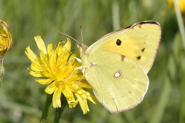 Picture taken in Commanster, Belgian High Ardennes . Species: Colias croceus female